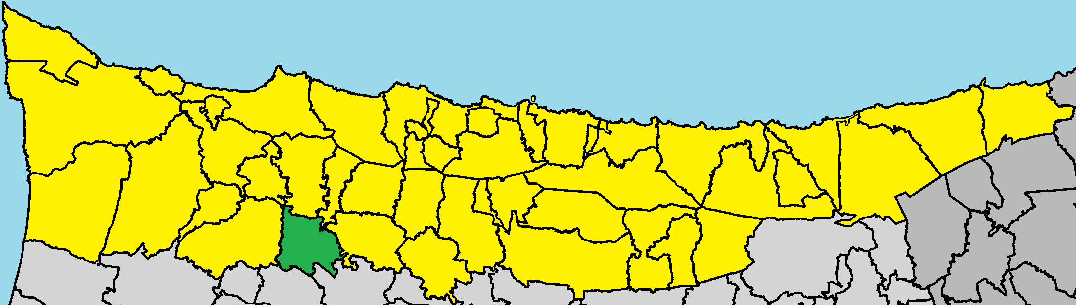 Kontemenos in Kyrenia District (de jure).